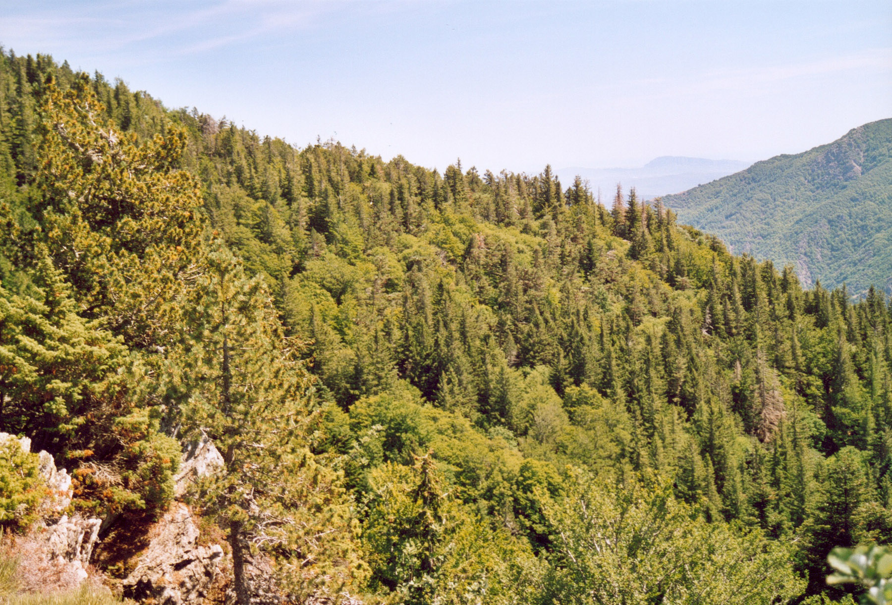 General view of the Arboretum de l'Hort de Dieu, on the southern flank of Mont Aigoual, Gard, France.